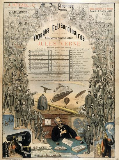 Poster commissioned by Pierre-Jules Hetzel in 1889 to advertise the Voyages Extraordinaires series by Jules Verne.